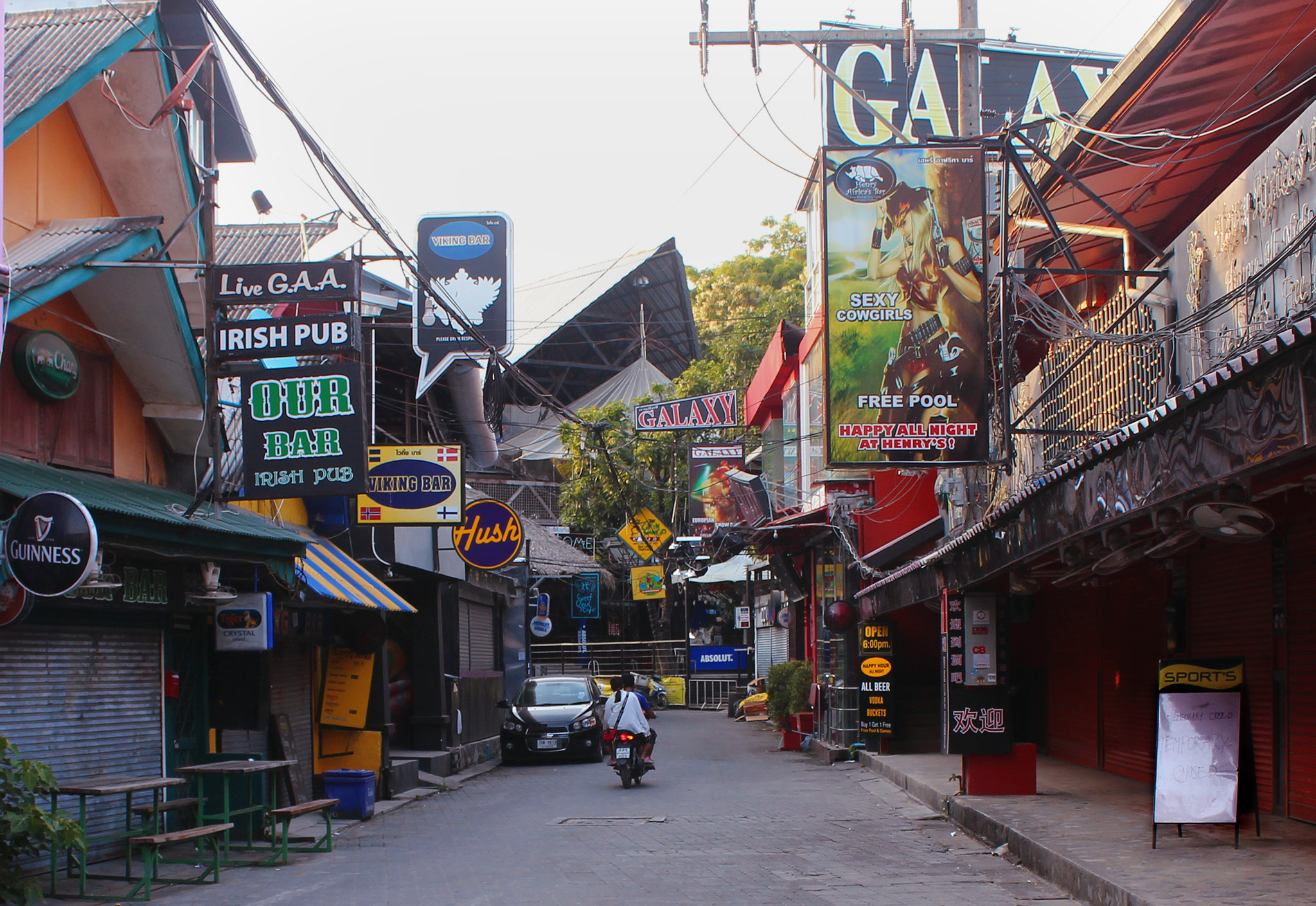 Temporary closed amusement and nightlife area in a Thai holiday resort town during the coronavirus epidemi lock-down, April 2020. So-called "Soi Green Mango" in Chaweng Beach, Koh Samui.